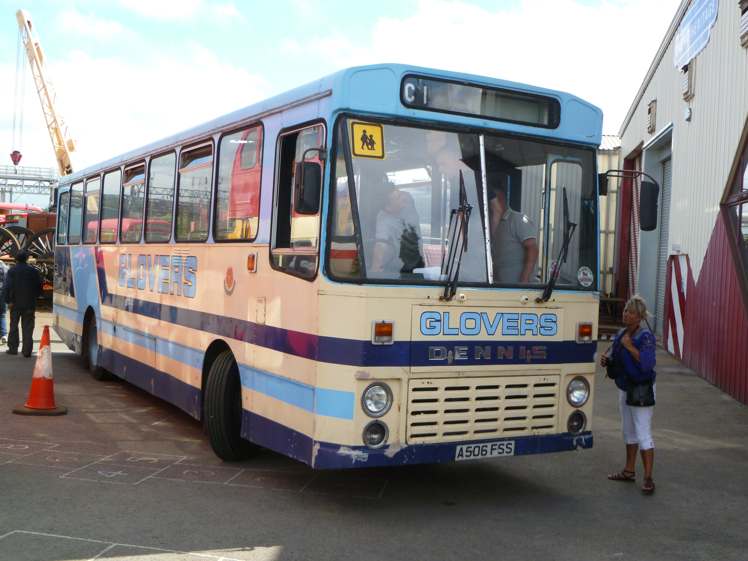 A Dennis Lancet with Perkins V8 engine and Alexander P body was new to Northern Scottish as their ND6, it is pictured here at The Crewe Heritage Centre at a running day in 2010